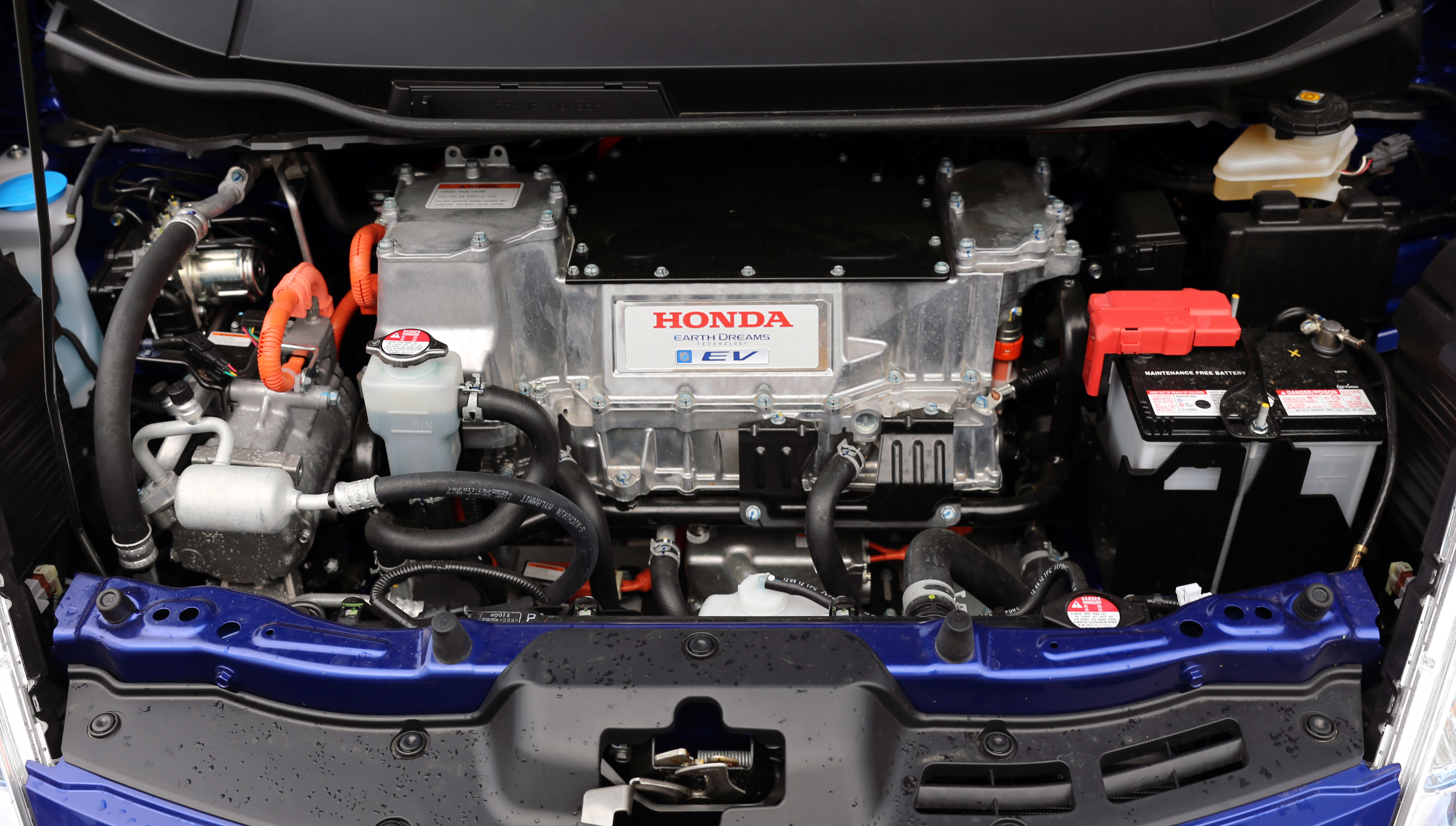 The "Earth Dreams" electrical engine of a Honda Fit EV